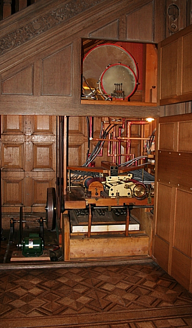 Orchestrion This installation is like a giant musical box with several different instruments, all controlled by perforated tough paper rolls.